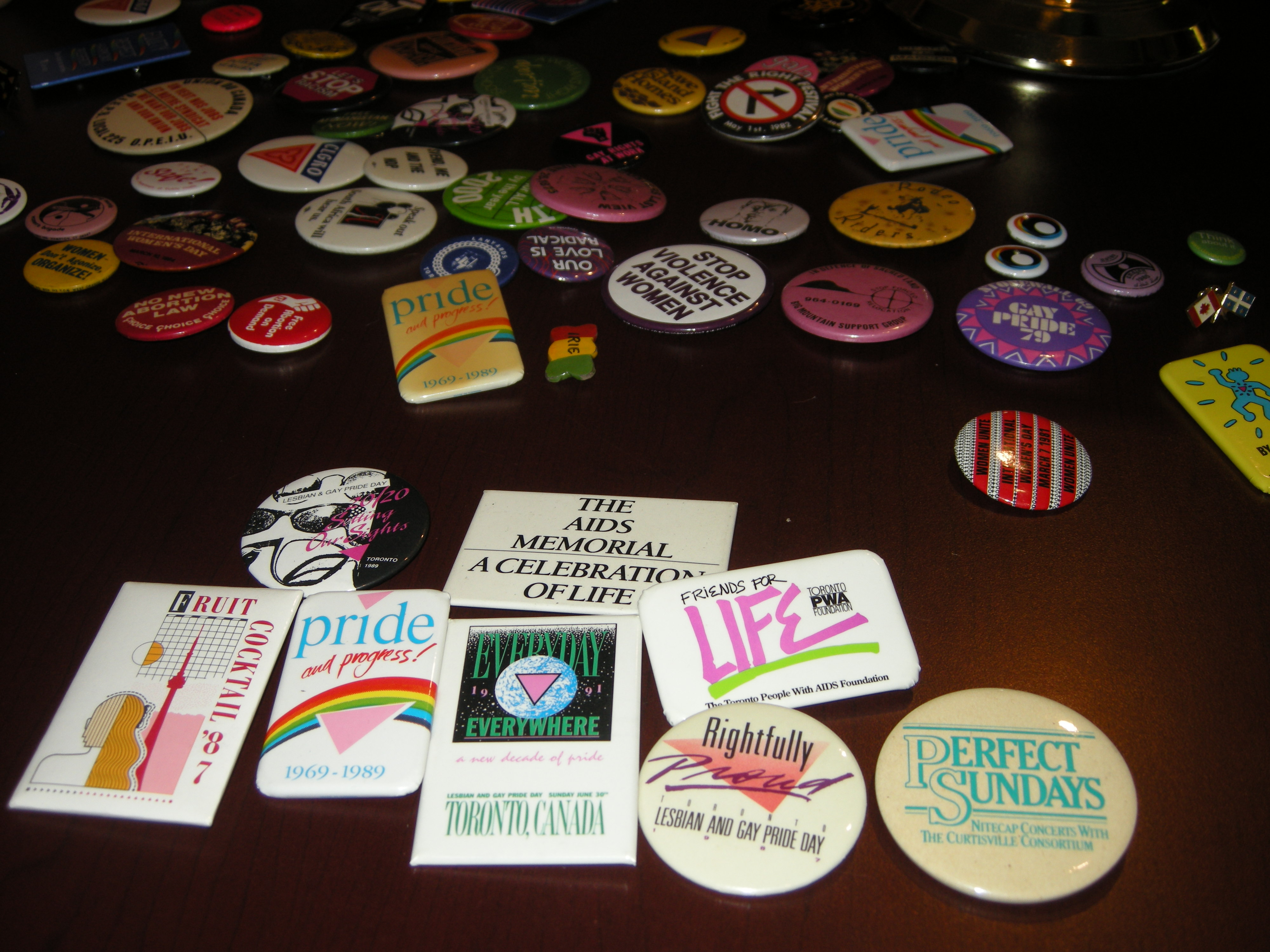 Image of a sample of buttons from the Canadian Lesbian and Gay Archives